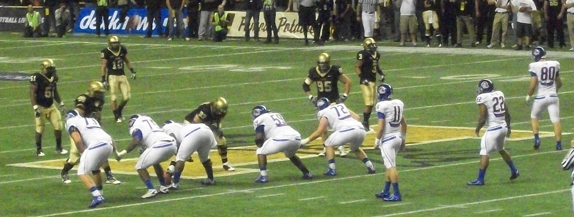 Boise State's offense lined up against Idaho's defense during their game at the Kibbie Dome in Moscow, Idaho on November 12, 2010.